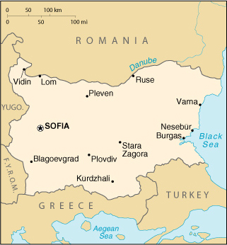 Bulgaria map from CIA World Factbook